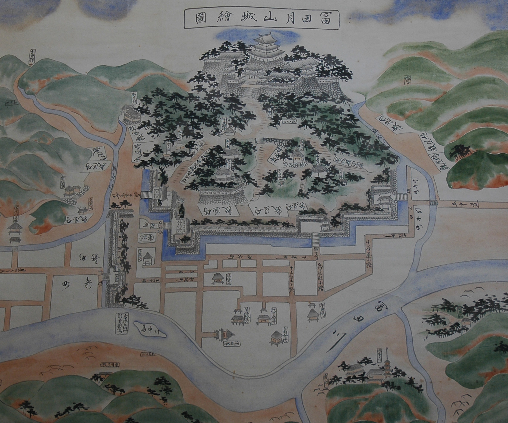 Gassan Toda castle old map(replica in Yasugi Municipal History Material Pavilion)